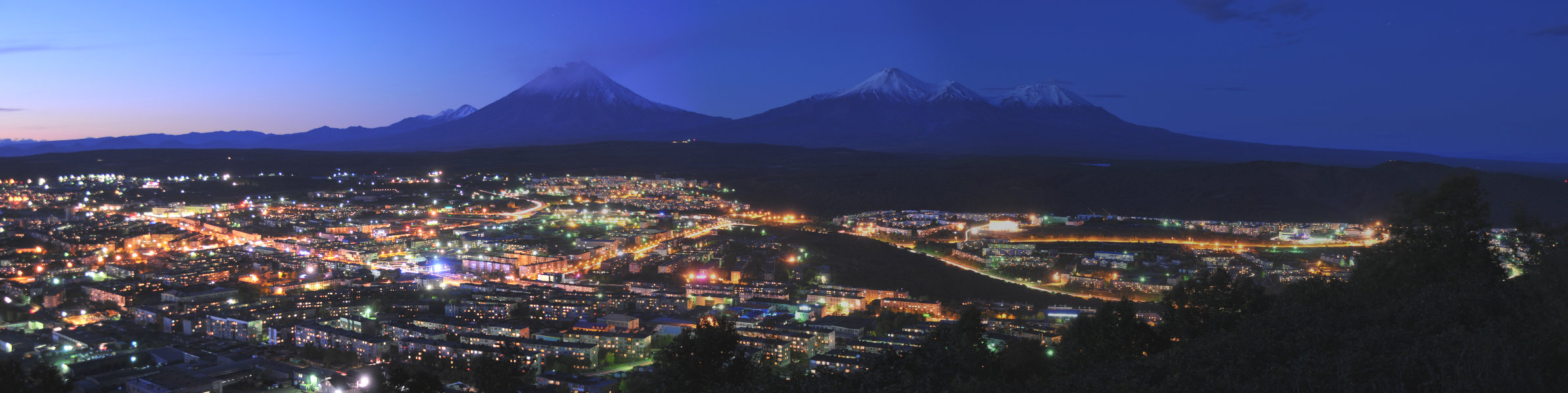 Petropavlovsk-Kamchatsky at night.